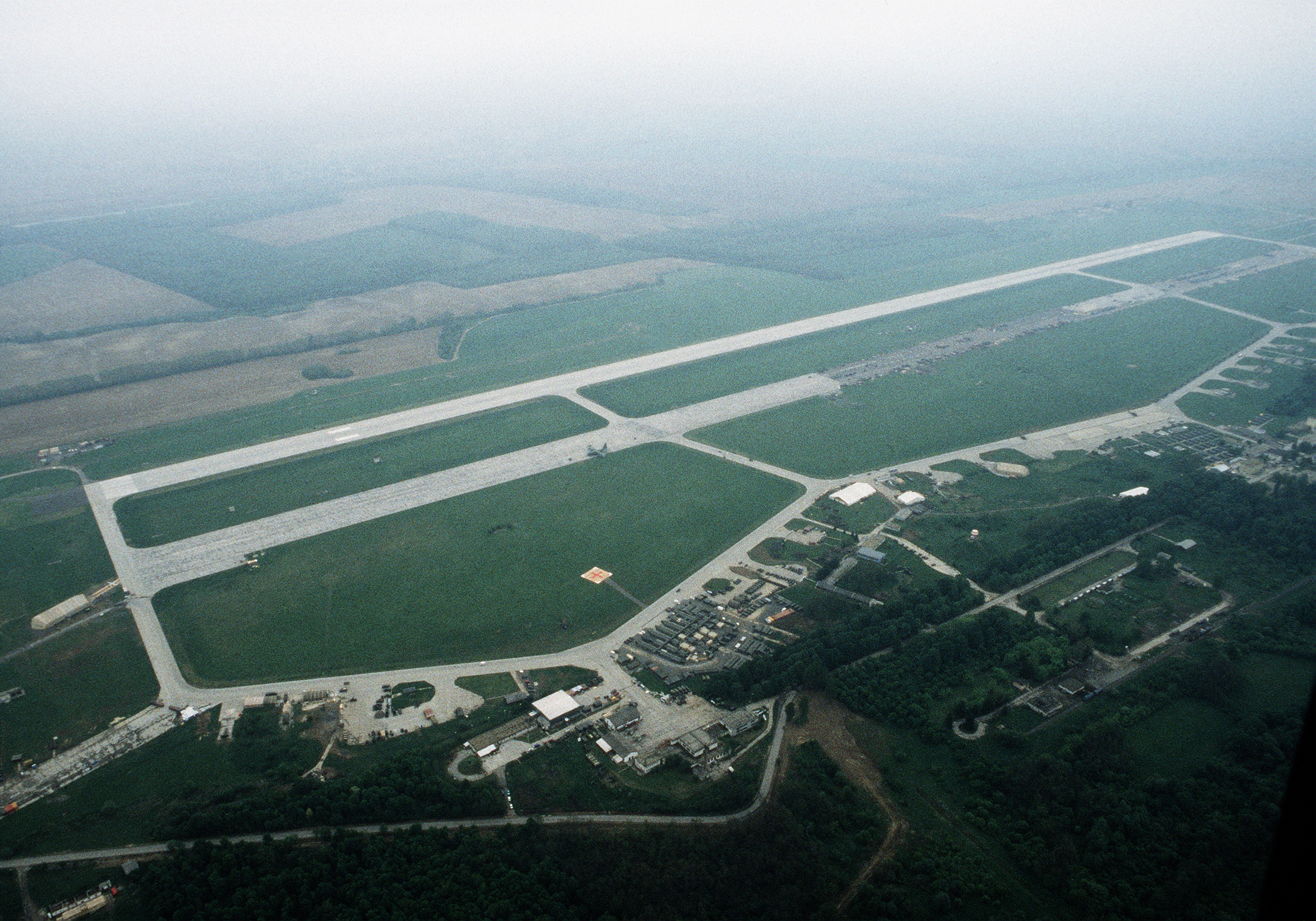 Aerial view of Taszar AB